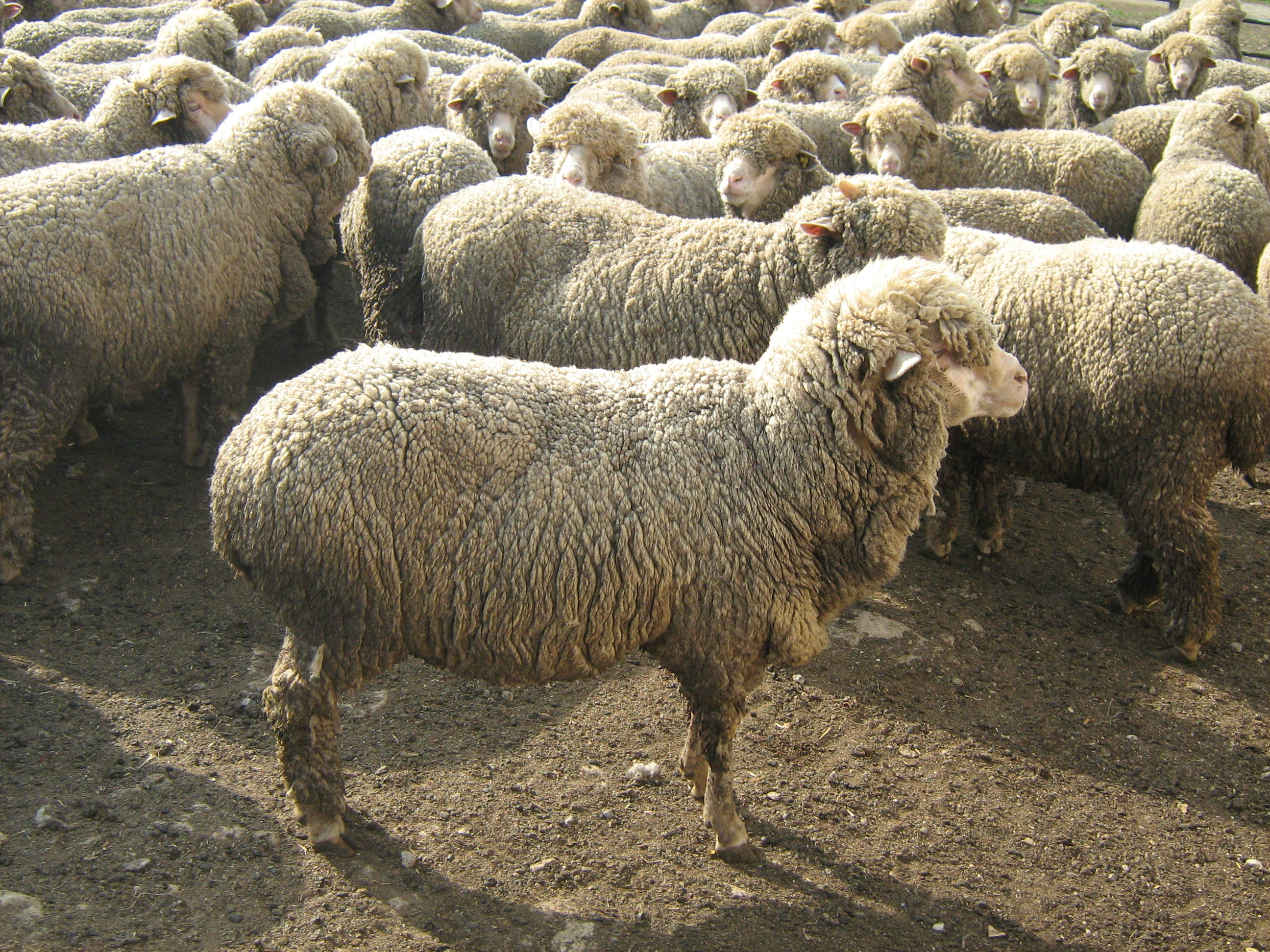 Ascanian sheep